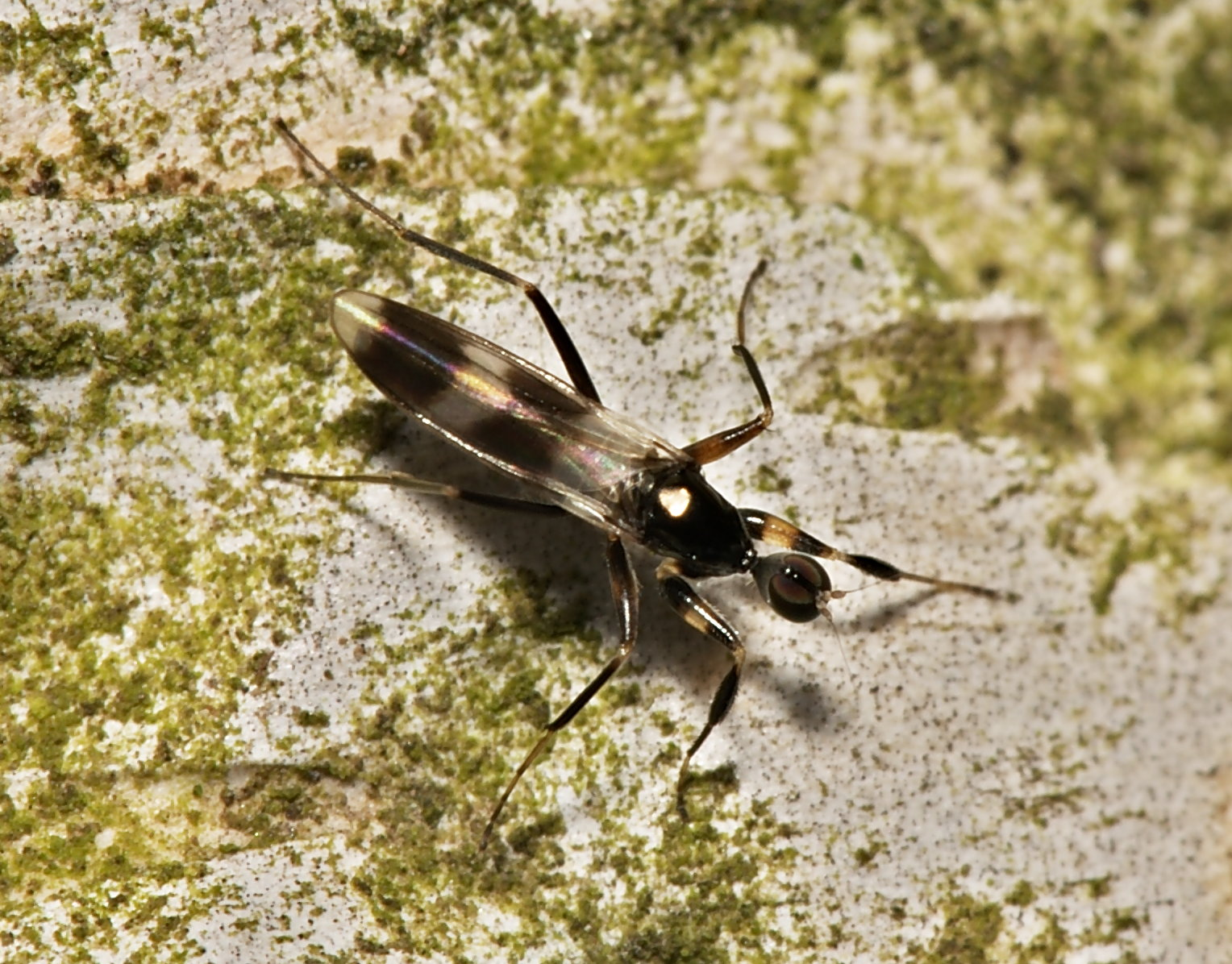 probably Tachydromia arrogans (Hybotidae), from Nettersheim, Germany.